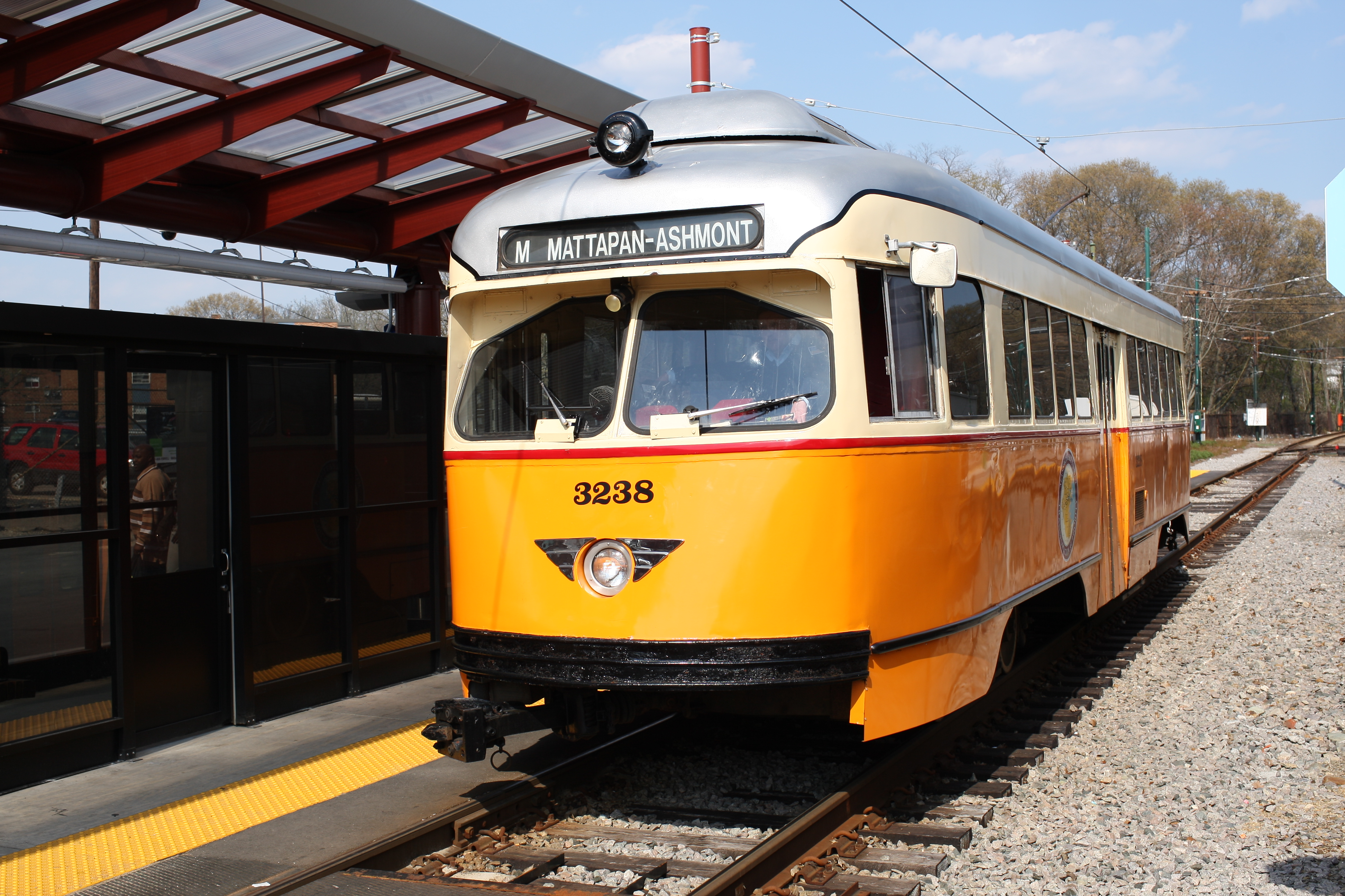 PCC streetcar #3238 at the outbound platform at Mattapan